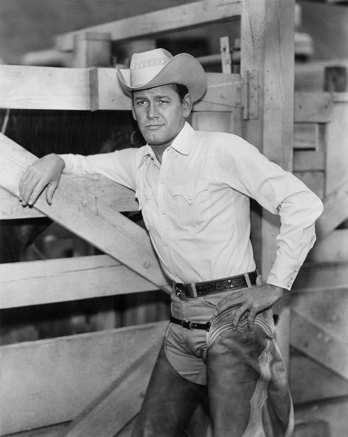 Publicity photo of Earl Holliman for The Wide Country